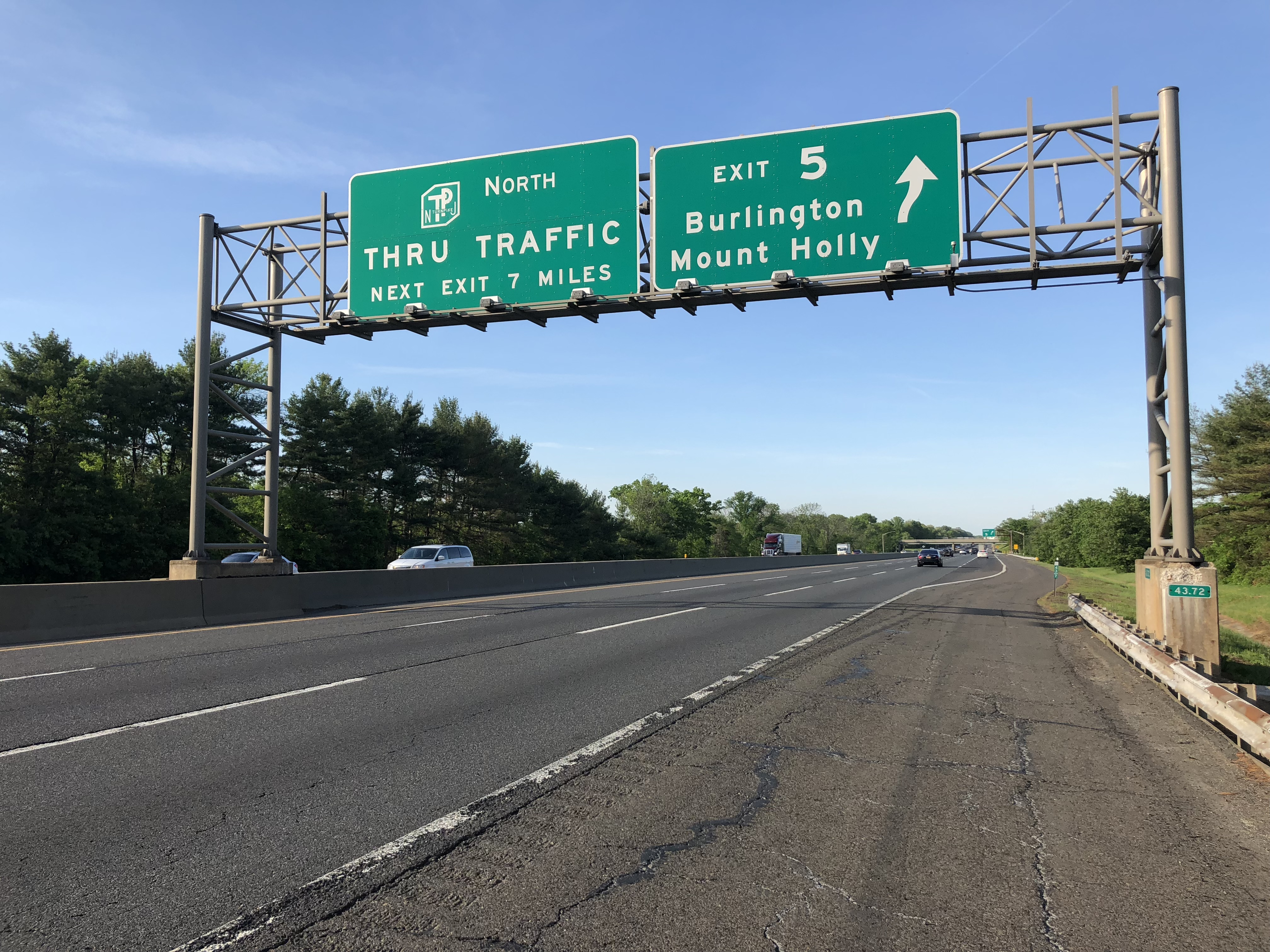 View north along New Jersey State Route 700 (New Jersey Turnpike) at Exit 5 (Burlington, Mount Holly) in Westampton Township, Burlington County, New Jersey